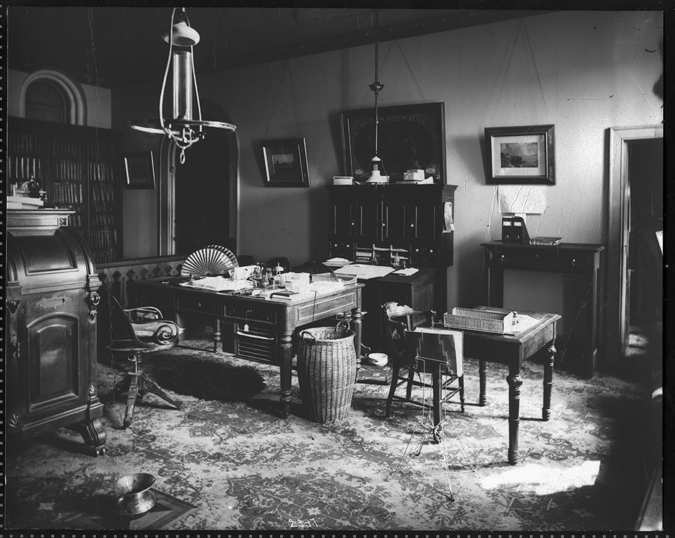 The East Range Office of Secretary Spencer Baird (1878-1887), in the Smithsonian Institution Building around 1878. Baird's state of the art Wooten desk, providing a filing system with pigeon holes and writing surfaces, is visible on the far left. The original negative number is 2337, but that negative has been lost. This photo is featured in: Field, Stamm & Ewing. The Castle, An Illustrated History of the Smithsonian Building (p. 37).